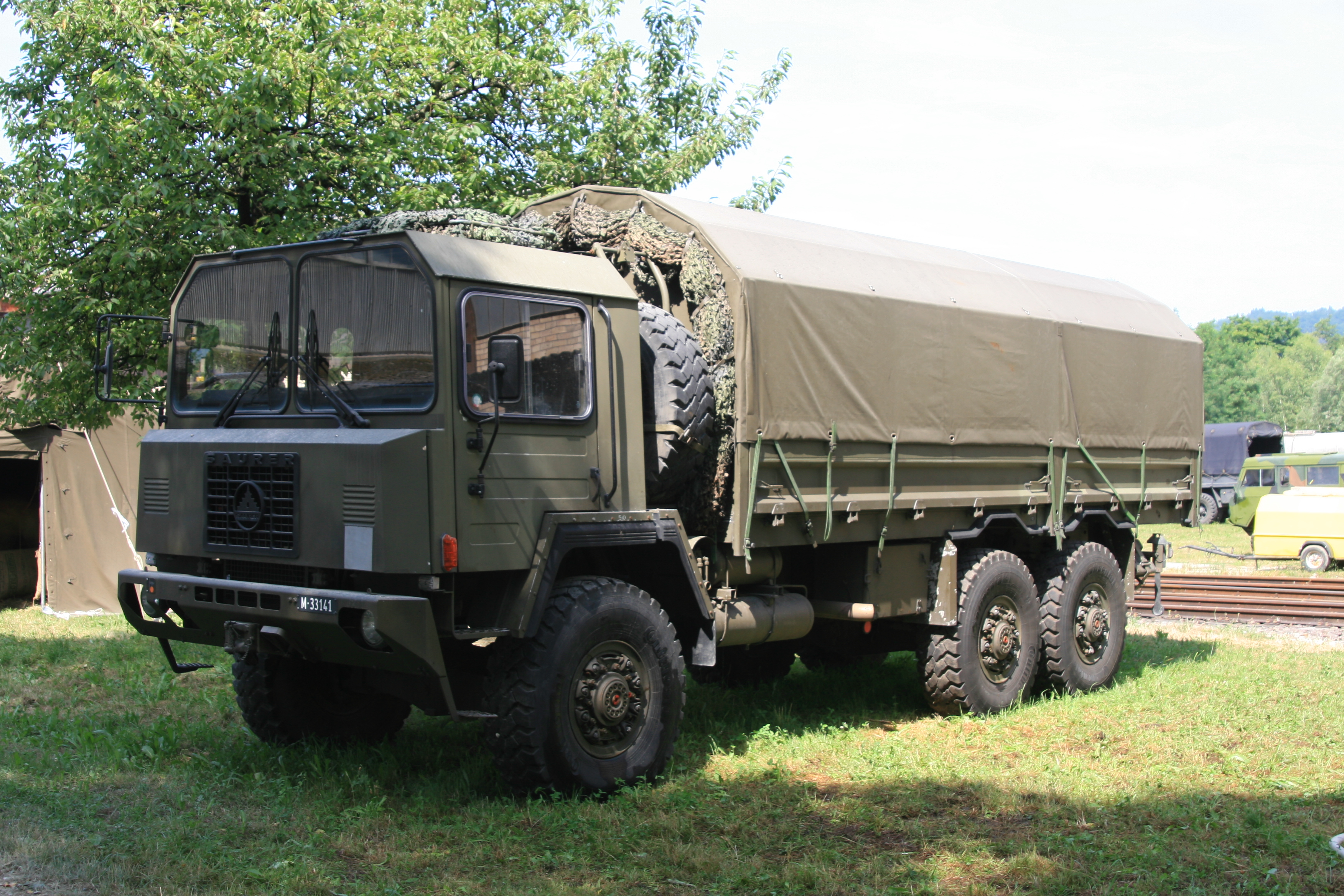 6. IMFT in Full-Reuenthal